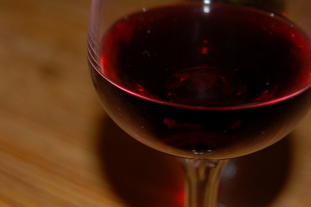 It is a thick Spanish Rioja "Baron de Barbon" from the winery Cosecha.